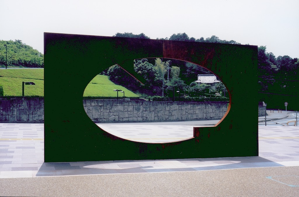 Globaler Rahmen für die Freundschaft, Corten, Fukuroi, Japan, 2000 300 x 50 x12 cm (Anlässlich der Fussball Weltmeisterschaft in Japan/ Südkorea)